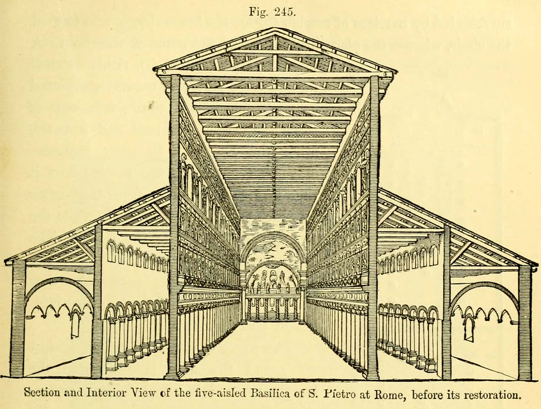 Section and interior view of the five-aisled basilica of S. Pietro at Rome, before its restoration. Fig 245 from Rosengarten's Architectural Styles